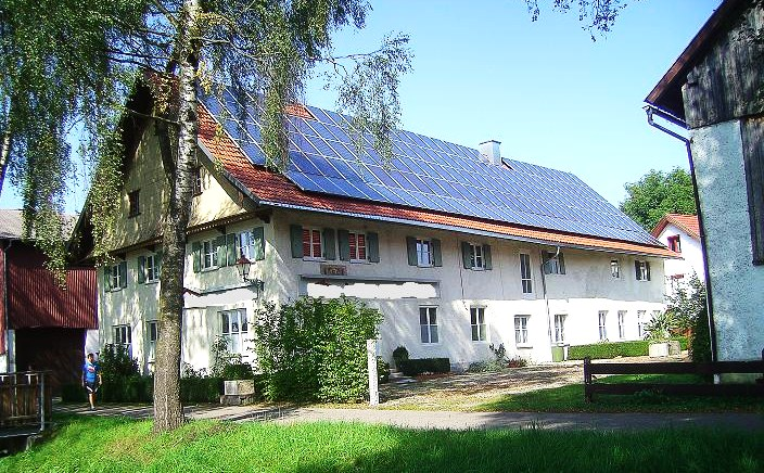 In 1972 J.Hakenmüller-Hasana after going to 72379 Hechingen with its head-quarter founded his sixth and youngest branch in Erkheim in the district of Mindelheim in Baravian Suebia, with about 40 seamstress.